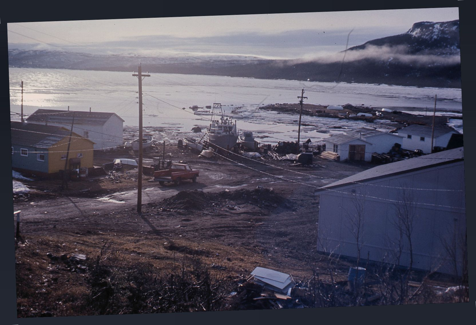 Postville, early June 1977 Another shot on unknown slide film in my unknown vfr camera. It was taken during my trip to Postville, on the North Coast of Labrador in May-June 1977. It was taken on one of the last mornings, so it was June month. That truck was, if I remember correctly, the only automobile in the town; there were boats, skidoos and one bulldozer. But the road was only about a half-mile long, so no one needed a car. The mayor owned the truck. As I've mentioned with the other pictures from this roll, the camera's viewfinder had shaken loose, and I didn't notice. I've rectified that unlevelness a little here, but to go any further would have made it look even more wonky. Shooting into the morning sun, I got a gigantic flare-image of the five-leaf aperture in the lower right quadrant of the picture.